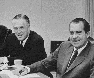 Richard M. Nixon (right) and George Romney in a Cabinet meeting (detail from more inclusive photo)